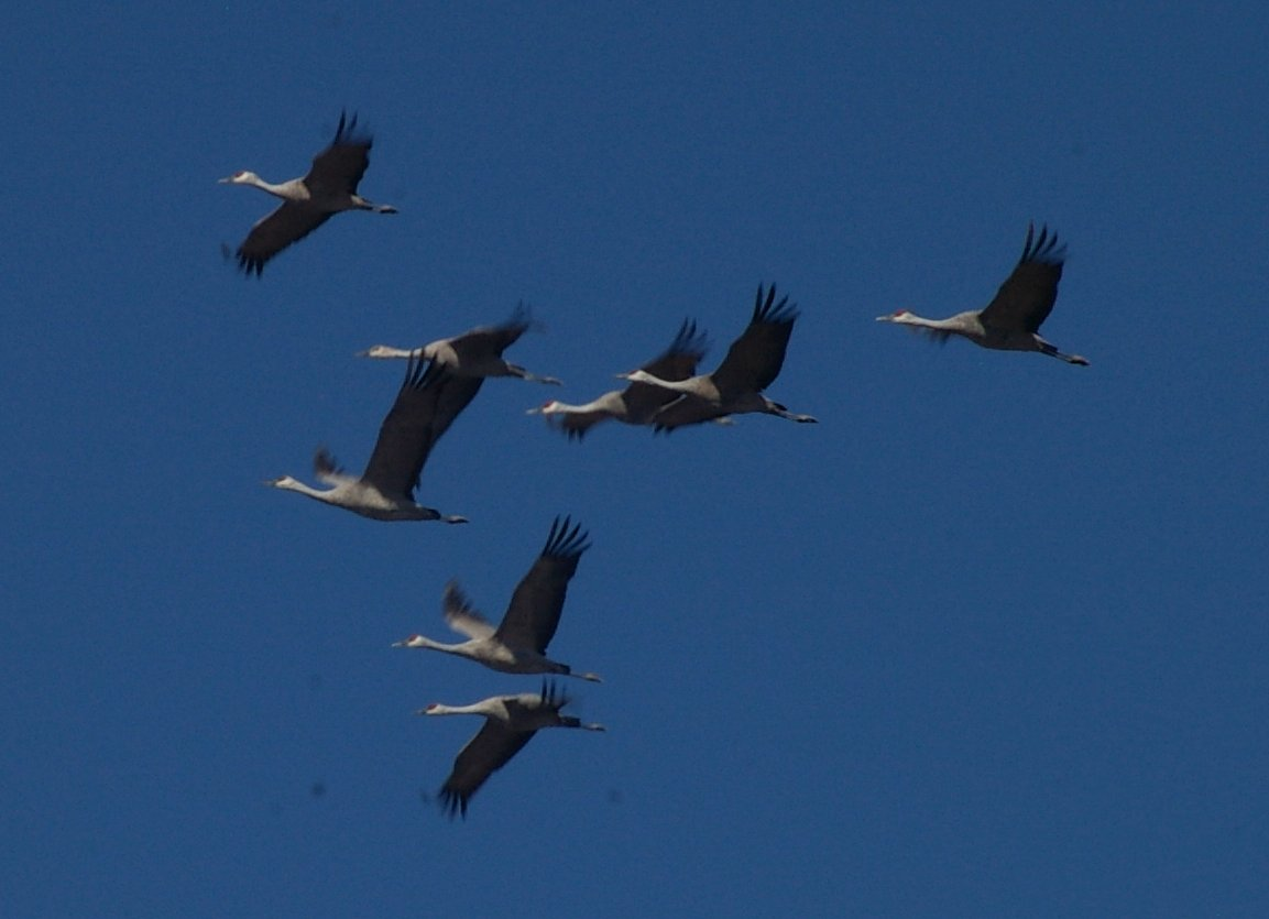 A flock of Sandhill Cranes in flight.